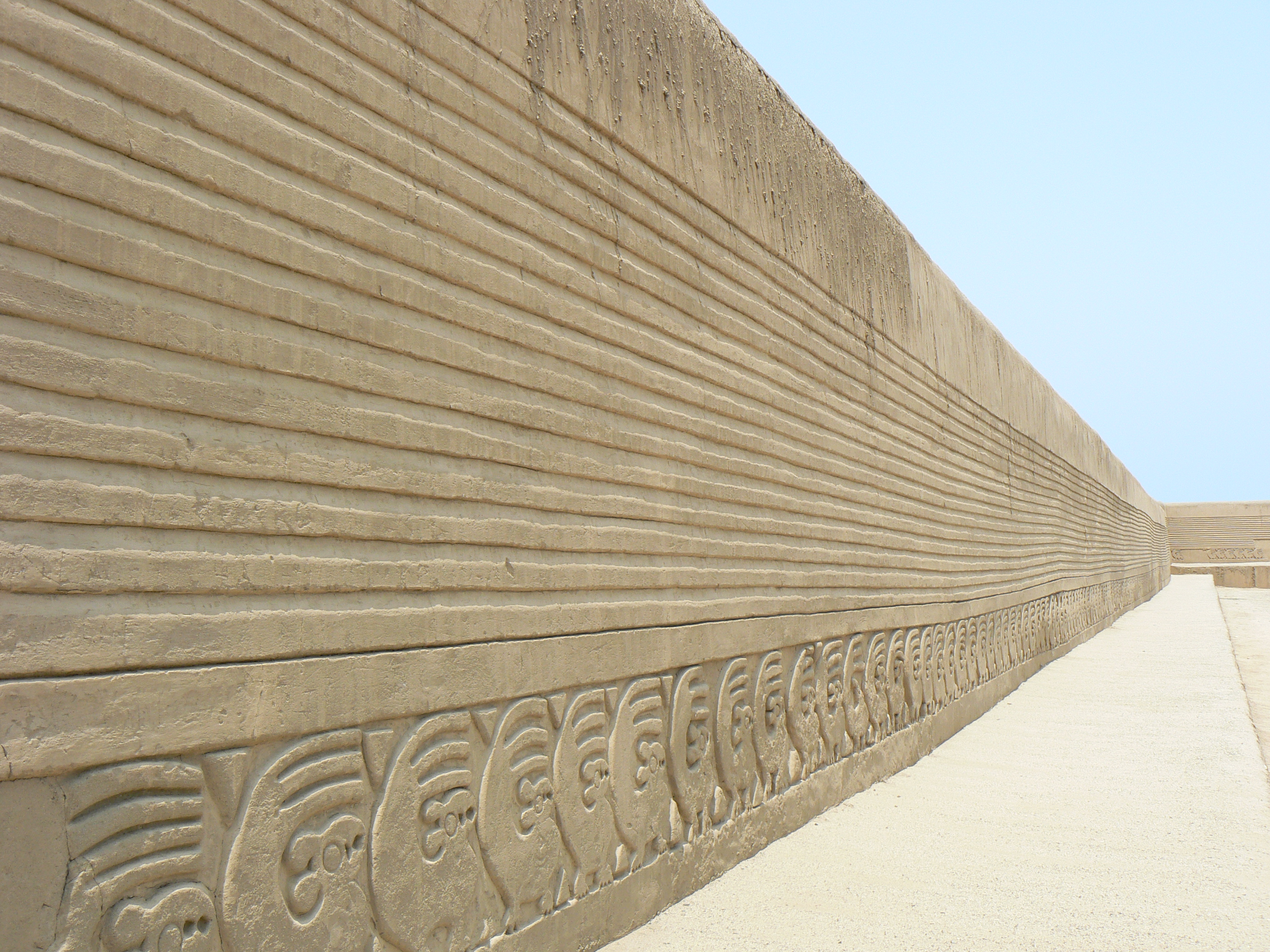 Wall of the main square at the Tschudi palace in the Chan Chan complex. The adobe city was built by the Chimu around 850 CE. The Chimu were a pre-Inca culture that flourished in northern coastal Peru. The Chan Chan site is near Trujillo in La Libertad region.